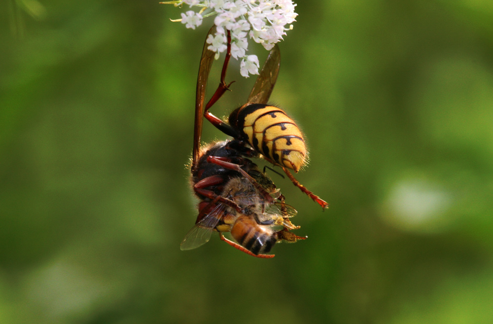 Hornets are the largest eusocial wasps, reaching up to 45 millimetres (1.8 inches) in length. The true hornets make up the genus Vespa, and are distinguished from other vespines by the width of the vertex (part of the head behind the eyes), which is proportionally larger in Vespa; and by the anteriorly rounded gasters (the section of the abdomen behind the wasp waist). See wasp and bee characteristics to help identify an insect. As shown a Vespa crabro germana, a geographic colour form mainly present in and near Germany.